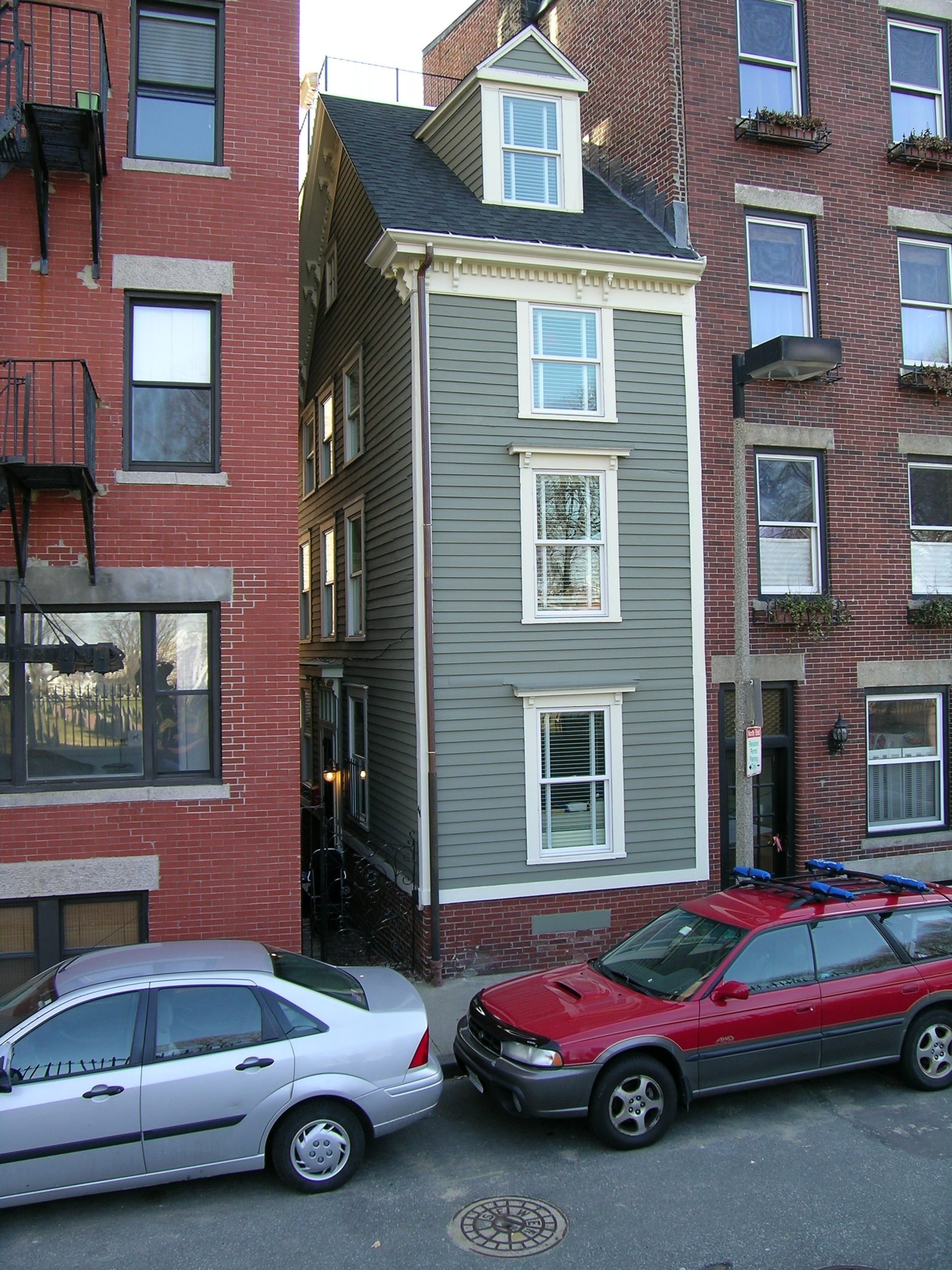 The Skinny House in the North End of Boston is an extremely narrow four-story spite house reported by the Boston Globe as having the "uncontested distinction of being the narrowest house in Boston". Source: March 2008 photo by John Stephen Dwyer.